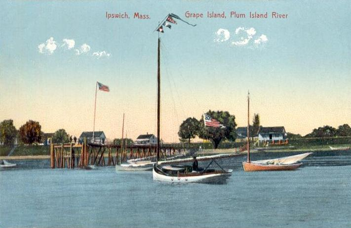 Grape Island, Plum Island River, Ipswich, MA; from a c. 1910 postcard.